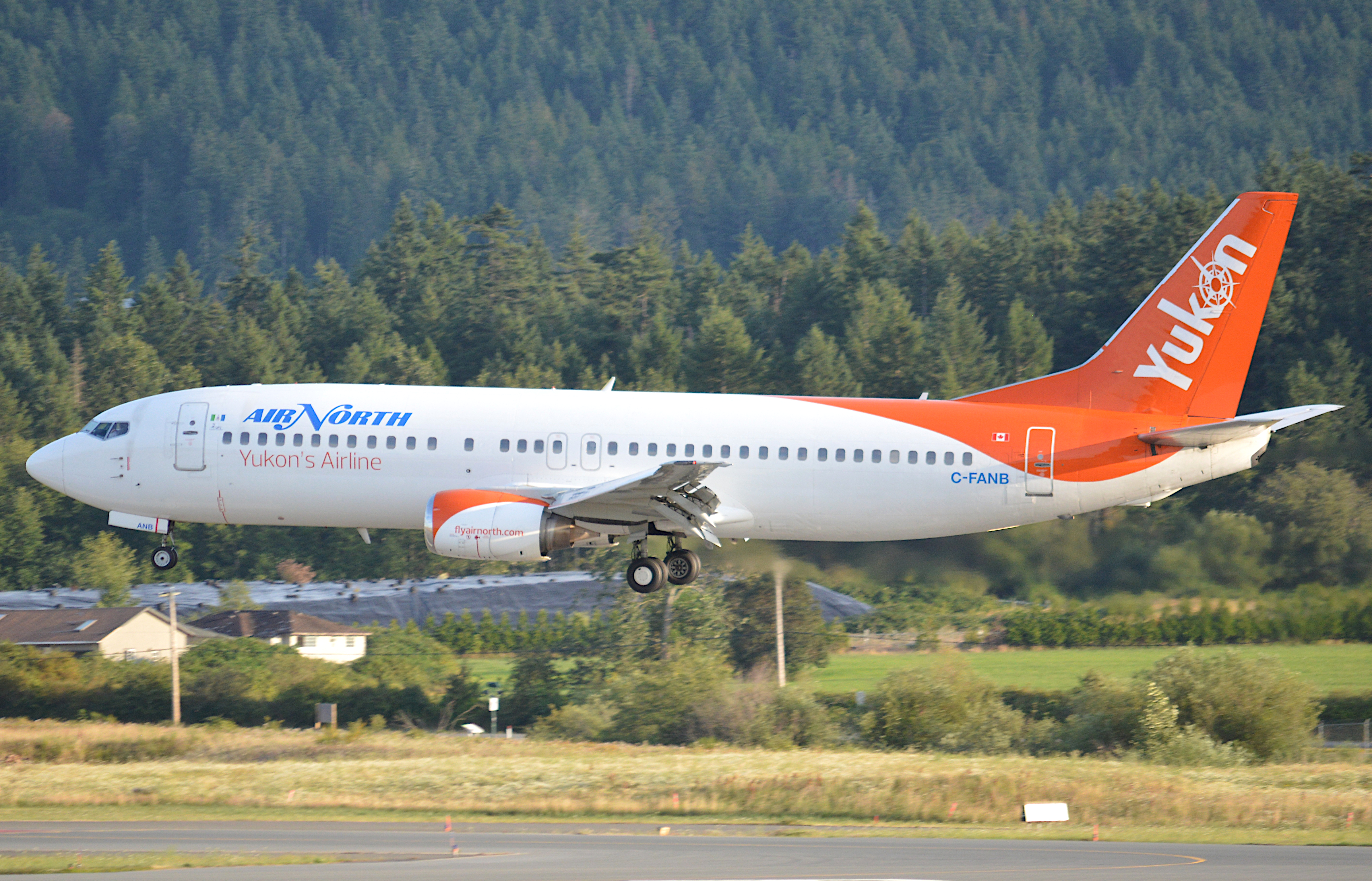 Air North Boeing 737-400 C-FANB landing on runway 09, Victoria International Airport, July 22, 2019.